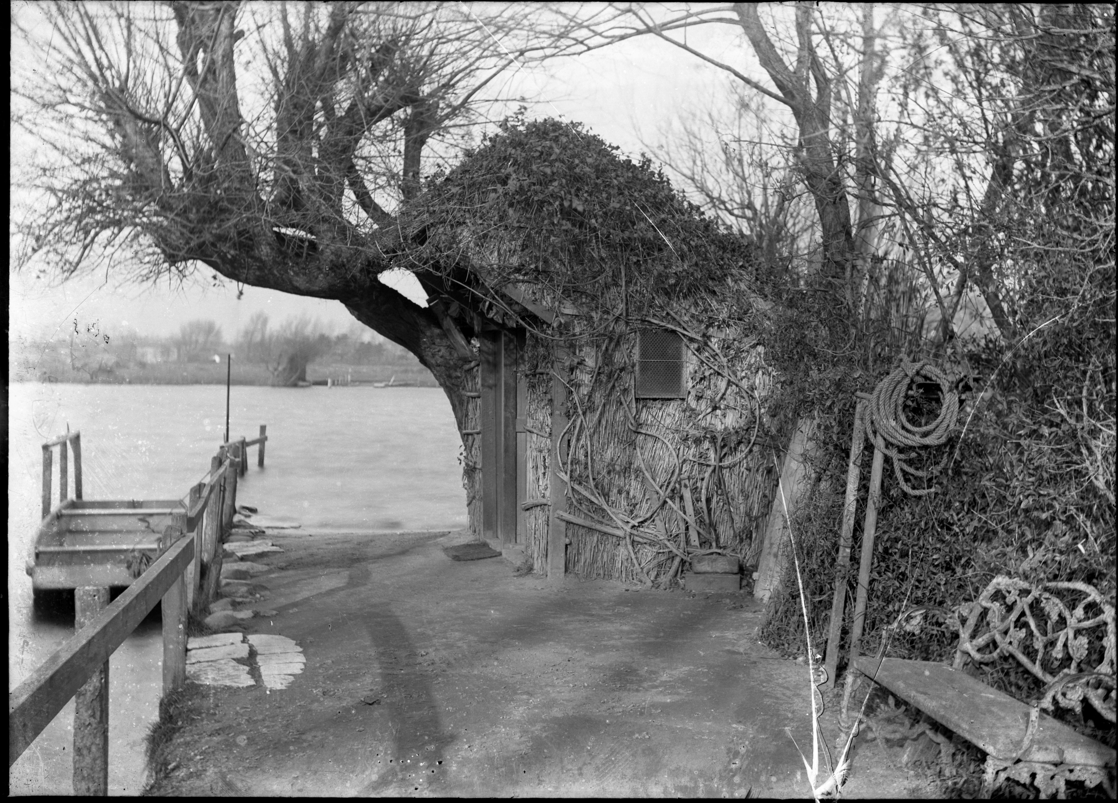 A photograph from the QUT Alumni Donations Collection